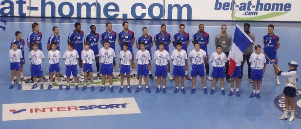 French national handball team